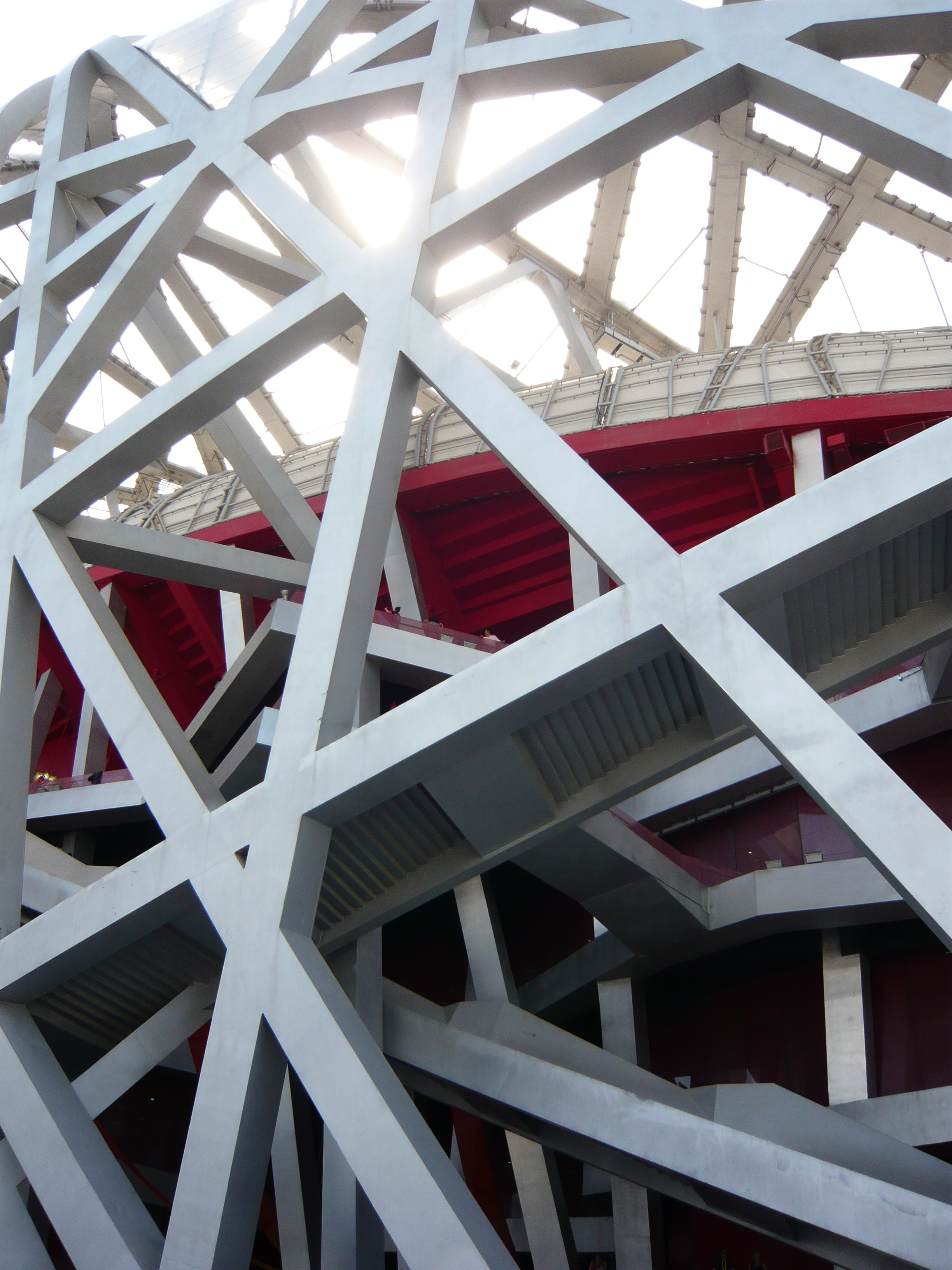 A close up of the architecture of the Beijing National Stadium